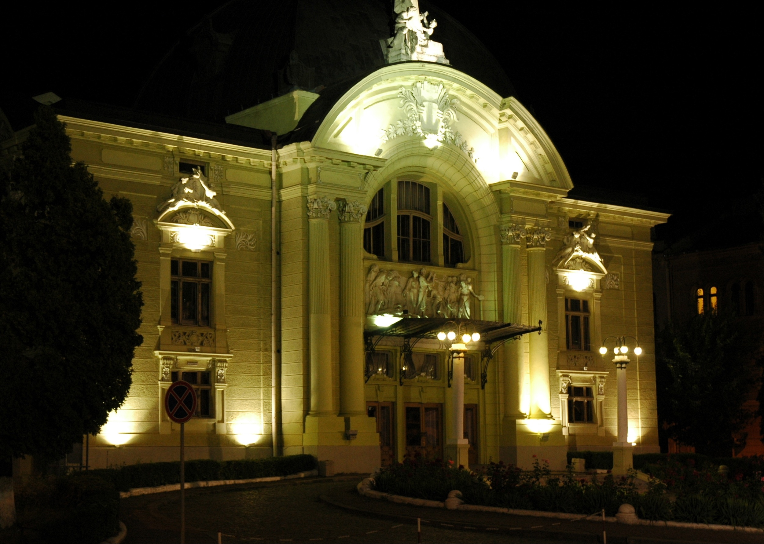 Chernivtsi Theatre at night